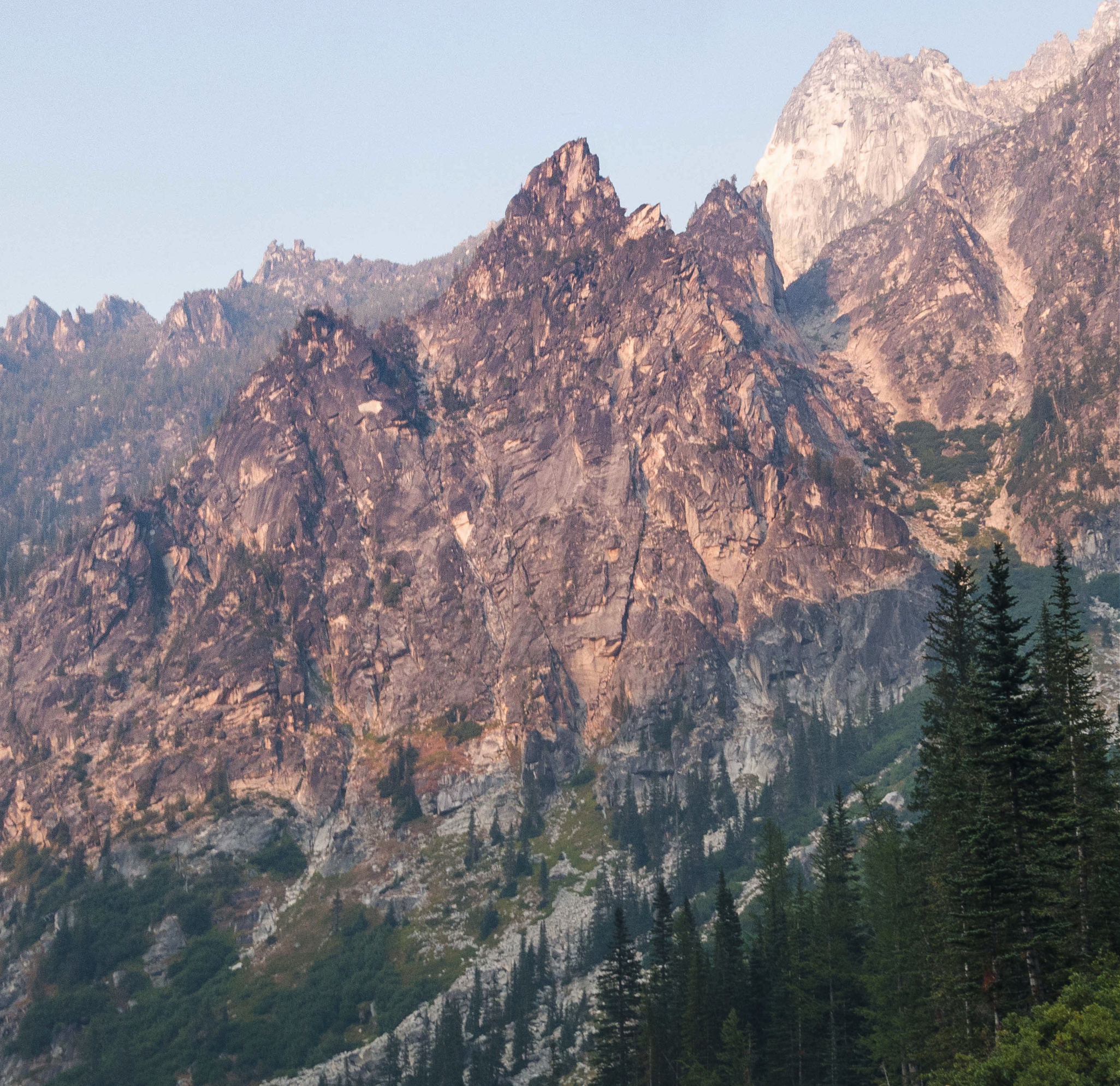 Jabberwocky Tower at sunset seen from Colchuck Lake